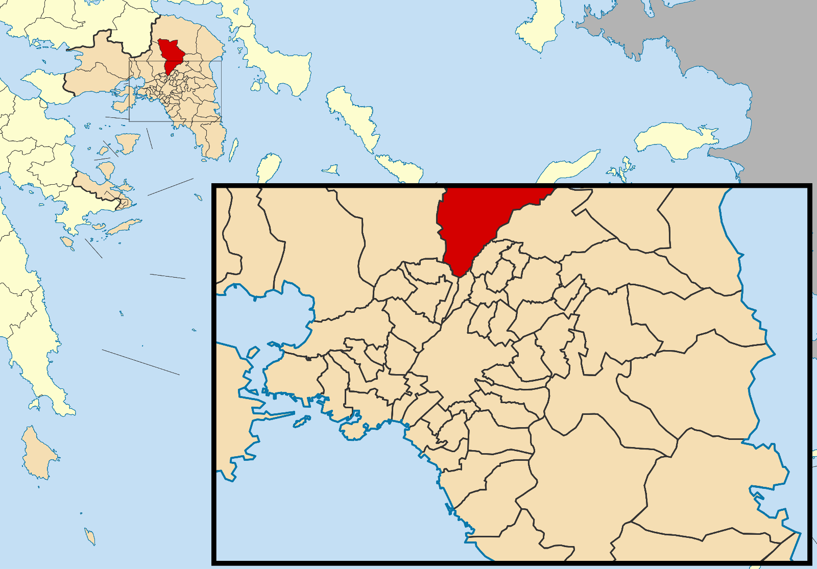 Locator map for Acharnes municipality in Greek region Attica (2011)